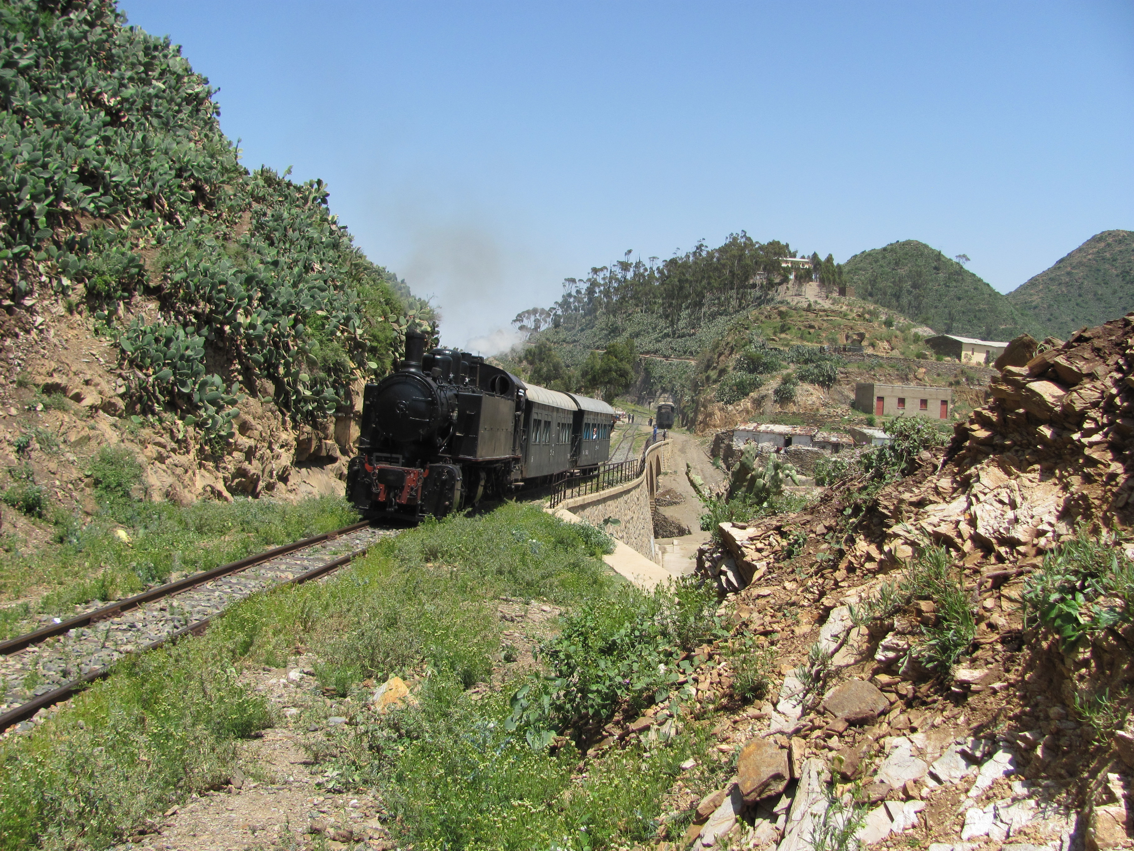 Scheduled weekend train Asmara - Nafasit - Asmara leaving Arbaroba rly station